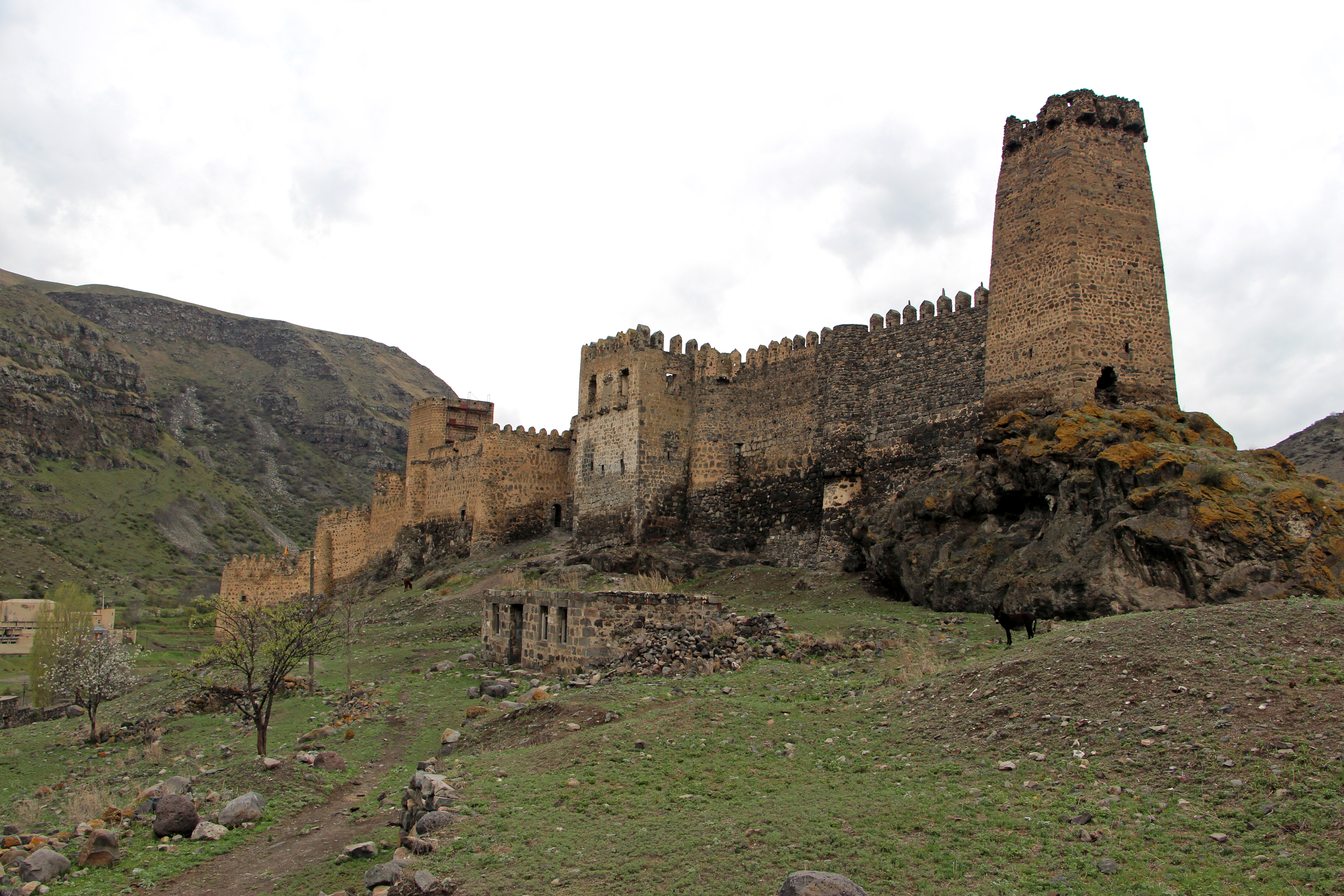 Khertvisi fortress